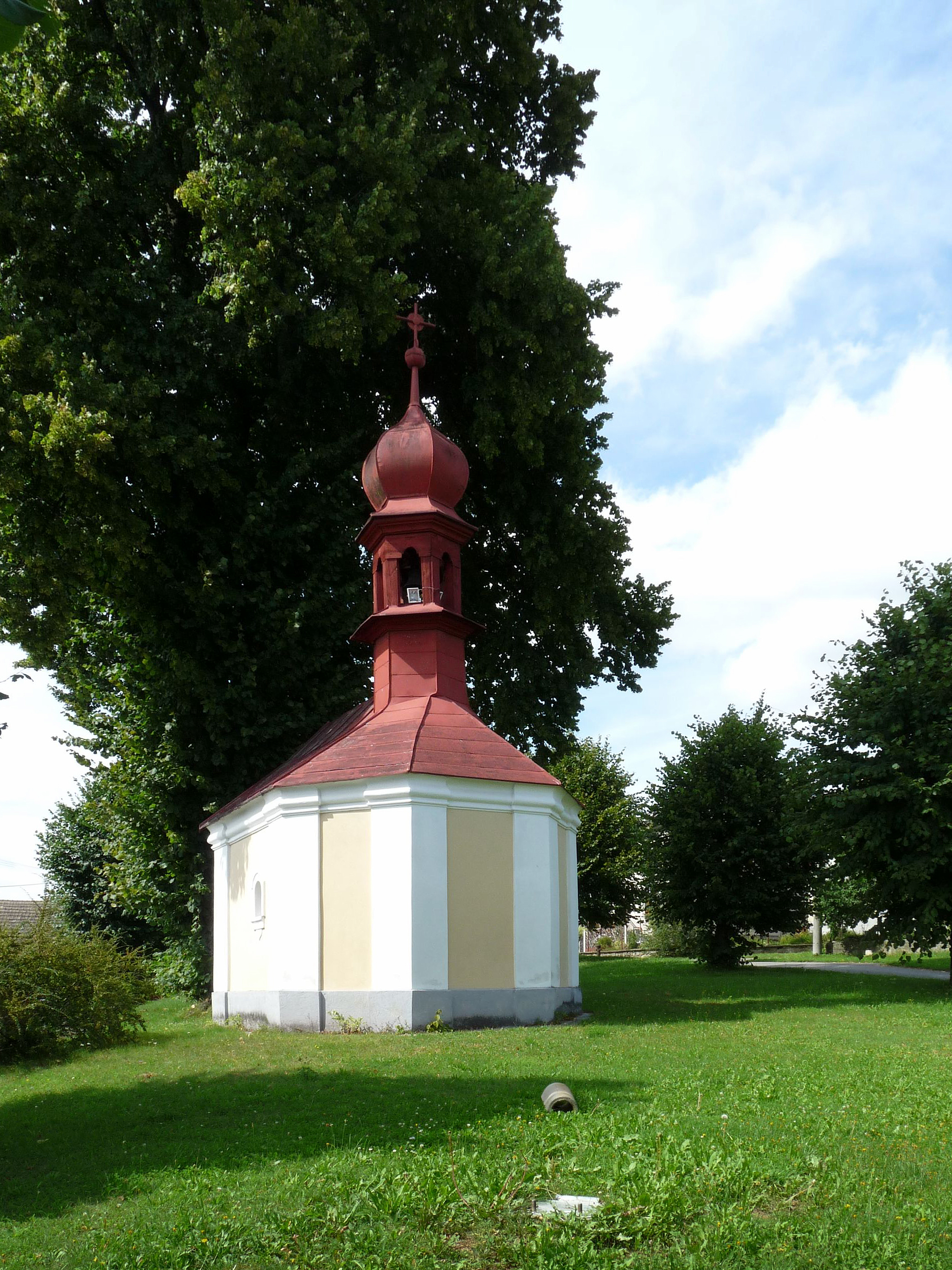 Chapel in the village of Krtov, Tábor District, Czech Republic.